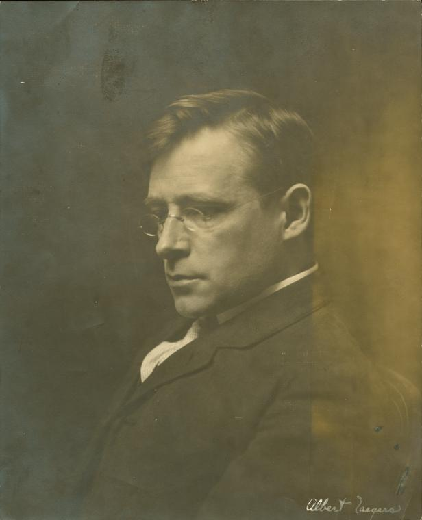 Albert Jaegers, (March 28, 1868 – July 22, 1925) self-portrait